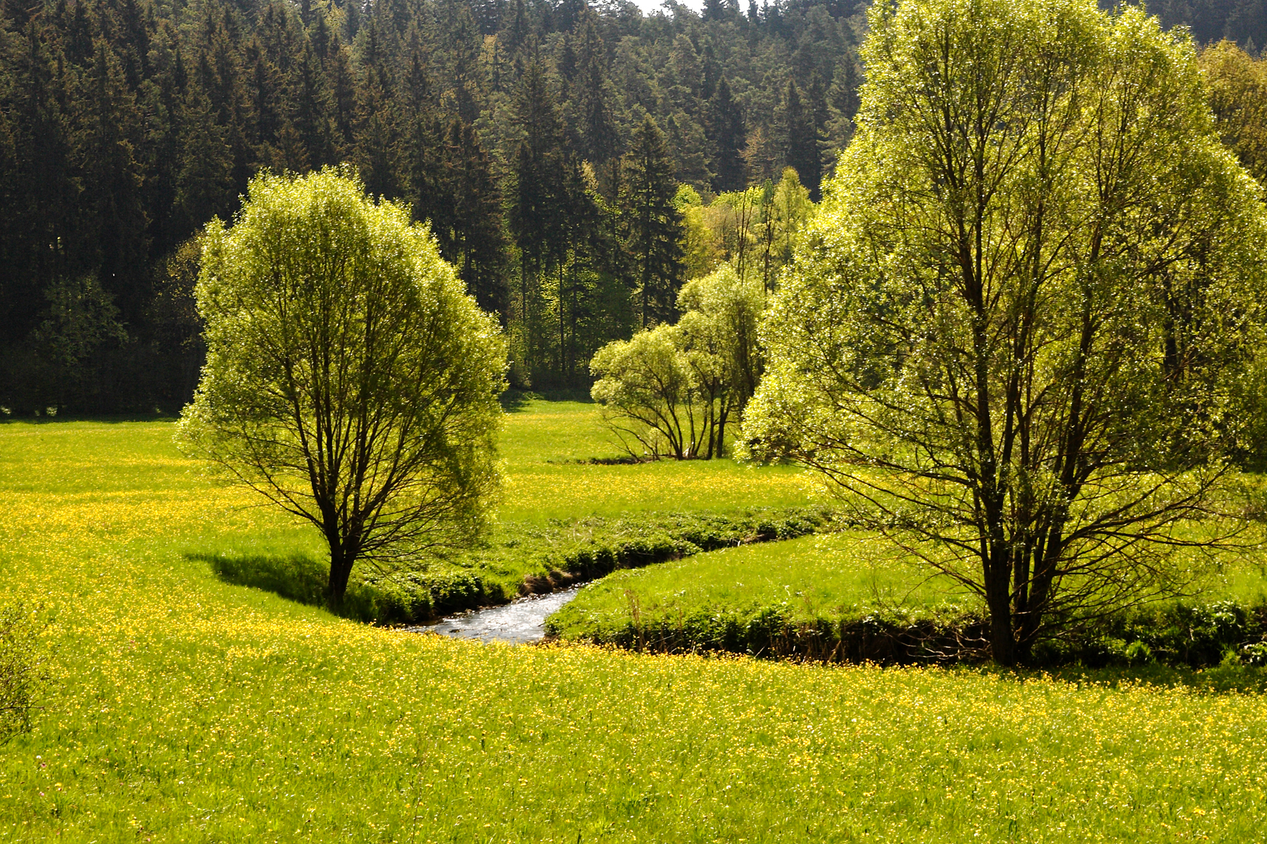 The last 9km of river Fehla are a nature reserve of the Swabian Alb.In this protected section of the valley there are absolutely no roads, no rails, no settlements, no houses, just a path with occasional wanderers or bikers - it is absolutely quiet.Water of the rivulet partly seeps away resurging partly in the karst spring "Image Gallusquelle" "Hermentingen", in the valley of river Lauchert, about 13 km from here.